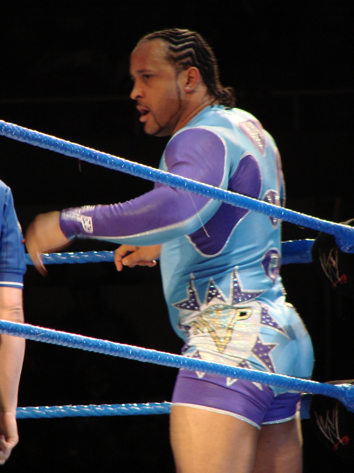 MVP in the ring. Assembly Hall (Champaign, IL), February 4en:2007. Taken by me.